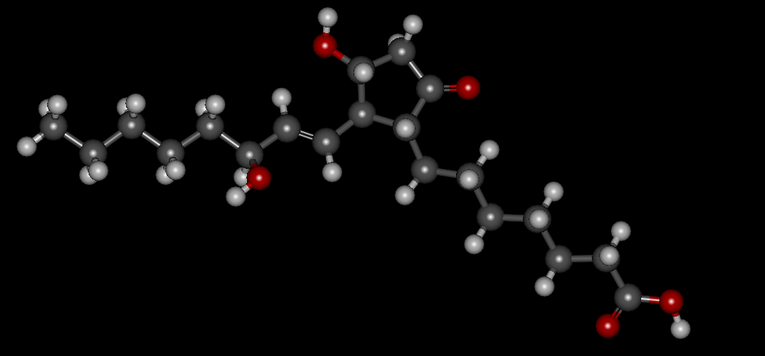 Alprostadil - (Prostaglandin E1) -3D Molecular structure diagram.